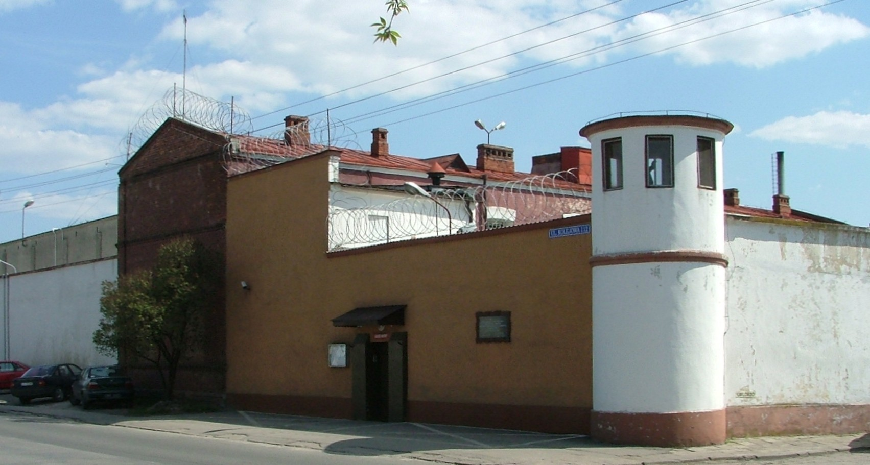 Poland, Chełm Pirson